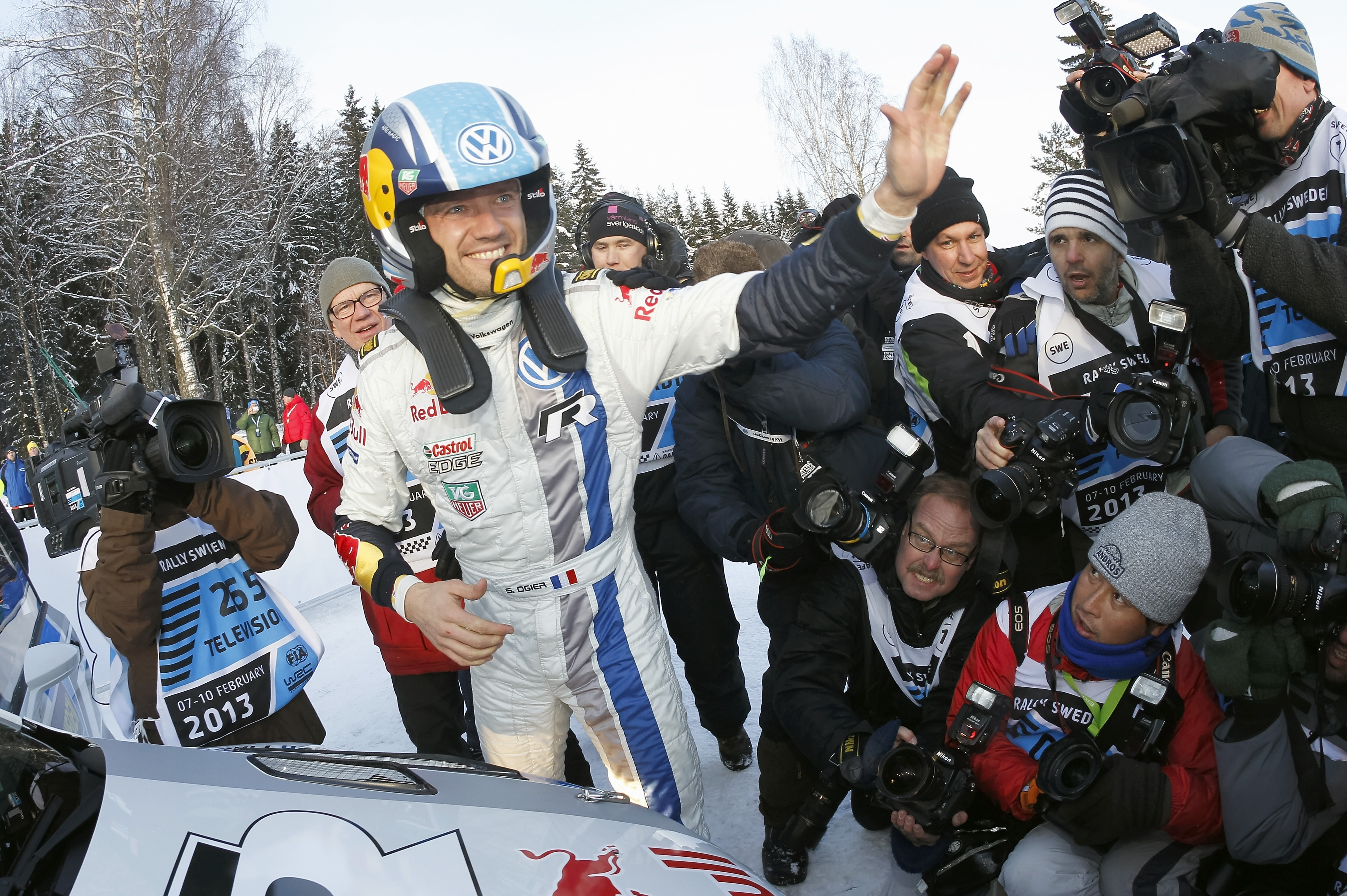 Sébastien Ogier at the 2013 Rally Sweden. The second rally of the 2013 World Rally Championship.